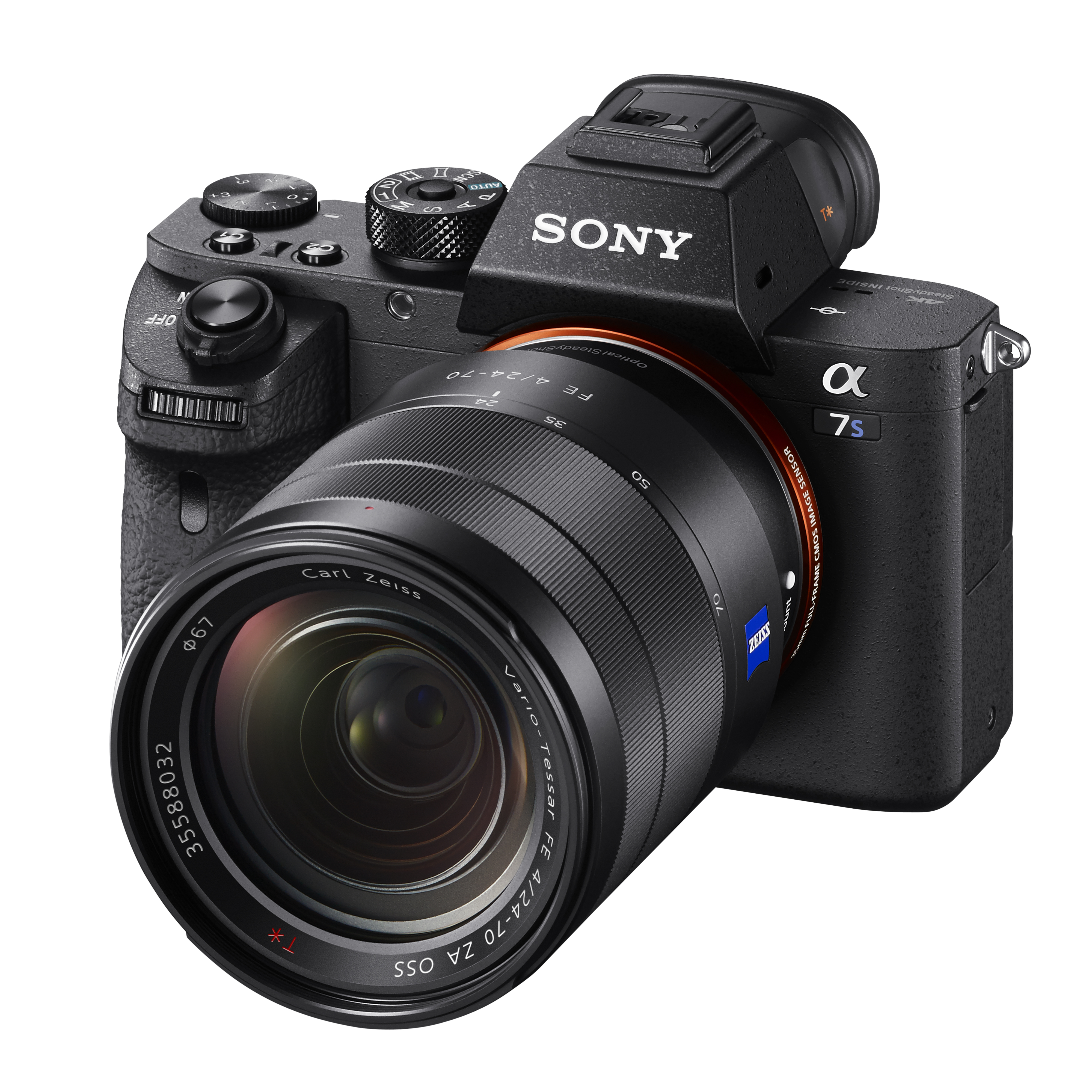 Photo originally used on Sony A7S II press release.